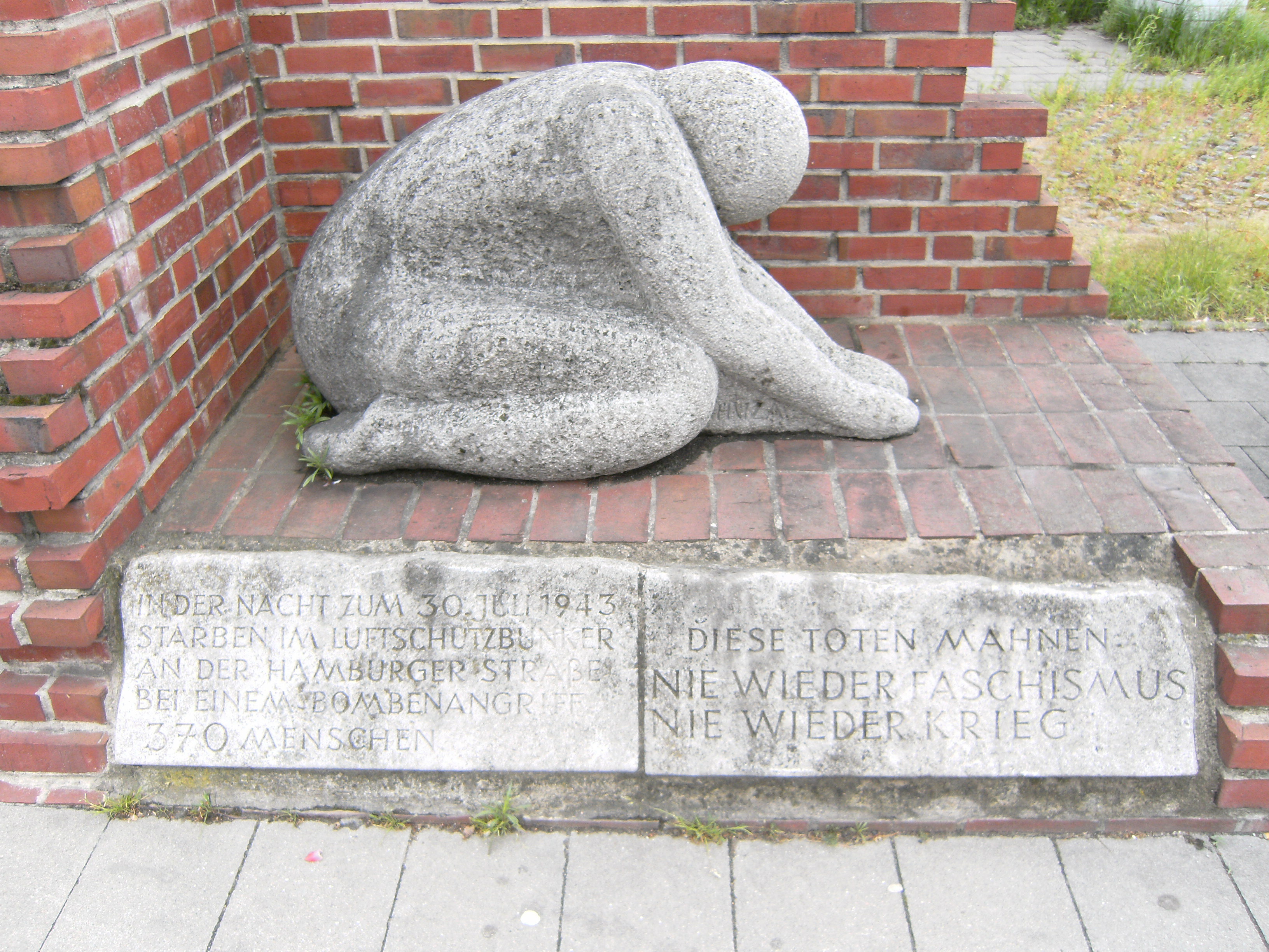 Monument by Hildegard Huza in Hamburg-Mundsburg for 370 persons who died by the air raid of july, 30 1943. Details on a stonetable at the base of the monument.